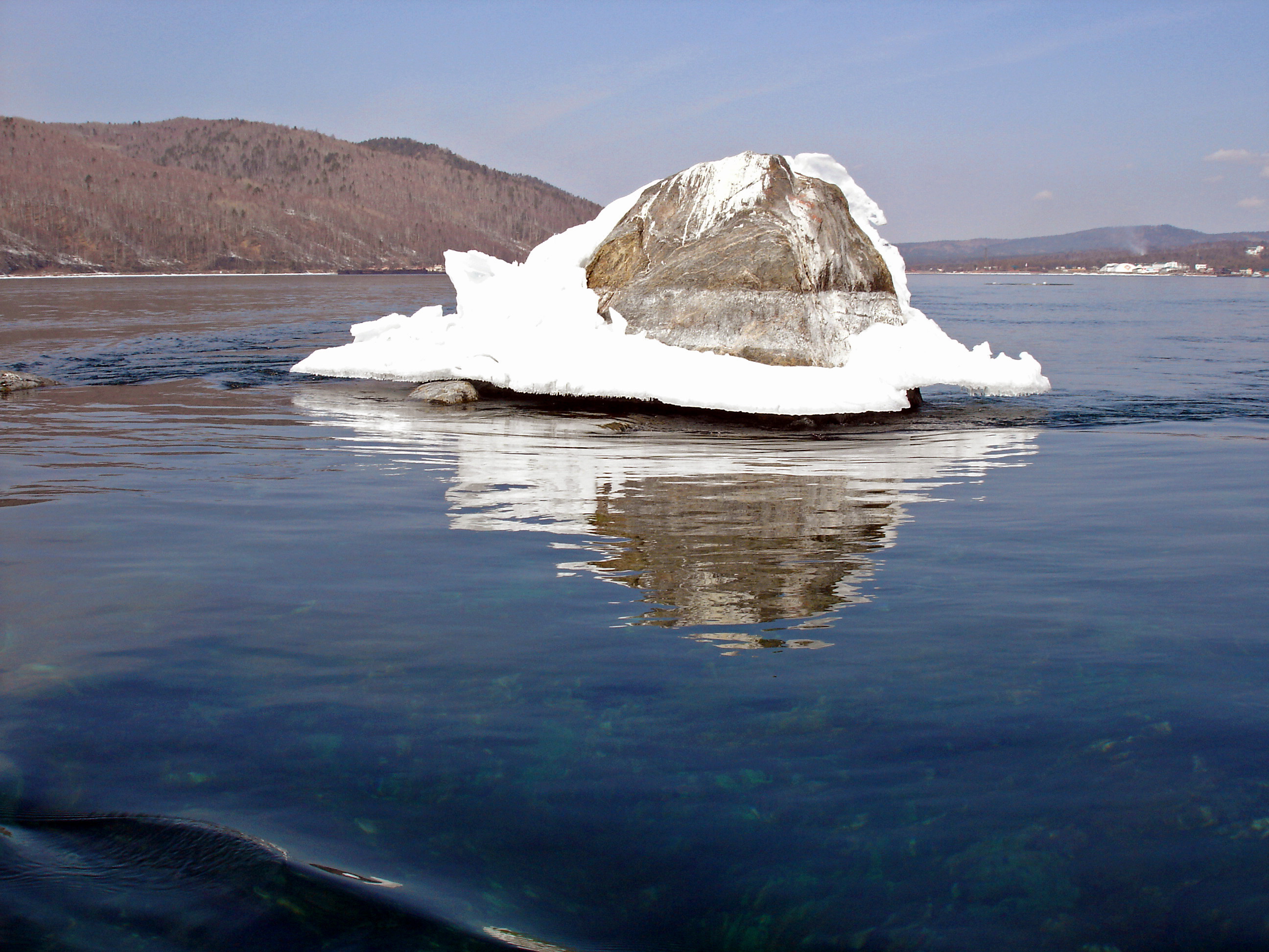 The Shaman's Stone marks the border between Lake Baikal and Angara River